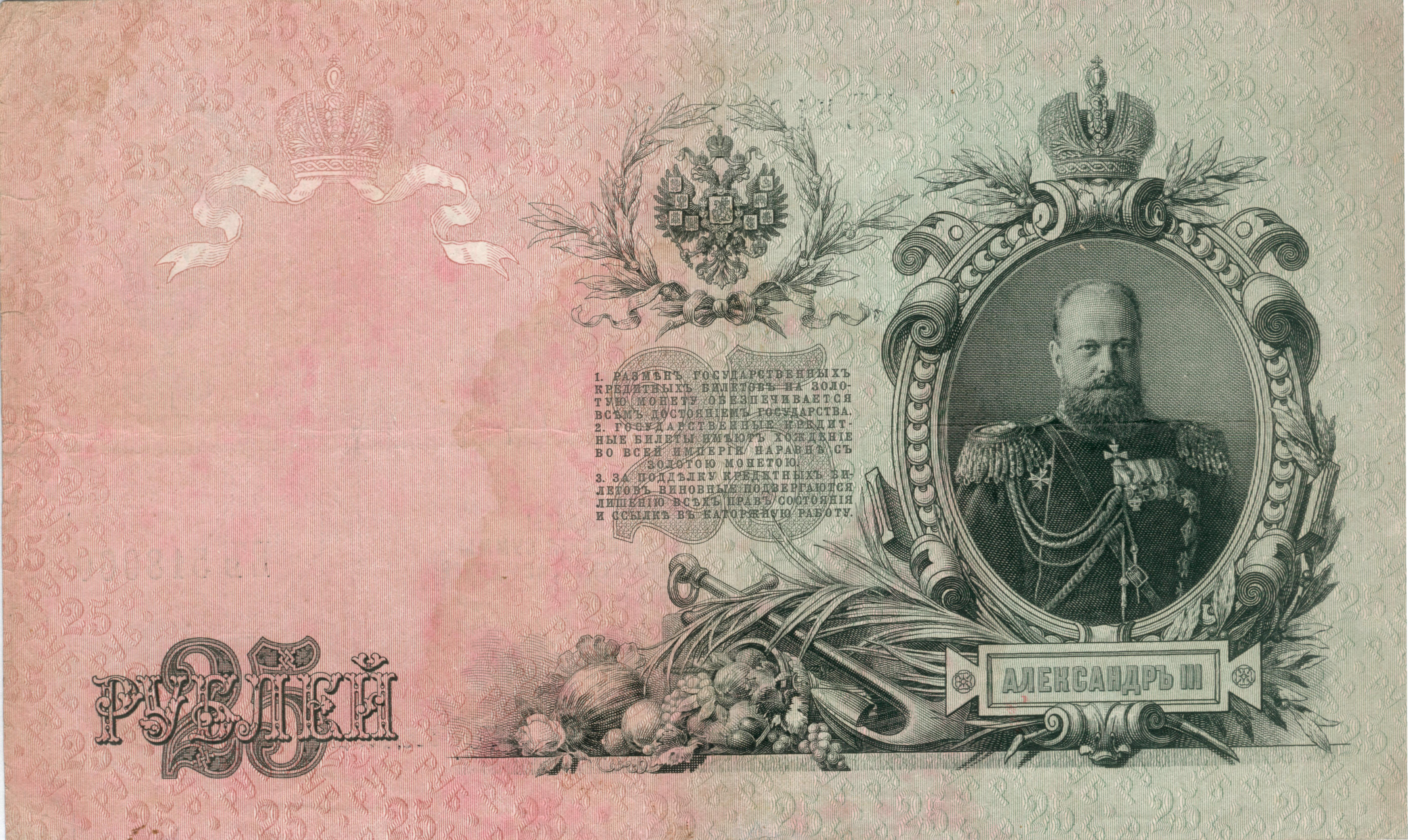 Russian Empire banknote 25 rubles. Version of 1909 year. Back